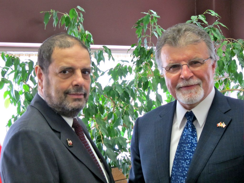 U.S. Consul General Philip Chicola meets with Yukon Territory Premier Dennis Fentie. Photo by R. Vallevand, Yukon Territorial Government.